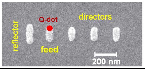 Scanning electron microscopy (SEM) image of a five-element Yagi-Uda antenna consisting of a feed element, one reflector, and three directors, fabricated by e-beam lithography. Overall dimension of the antenna is 800 nm, equal to the wavelength of operation. A quantum dot is attached to one end of the feed element.